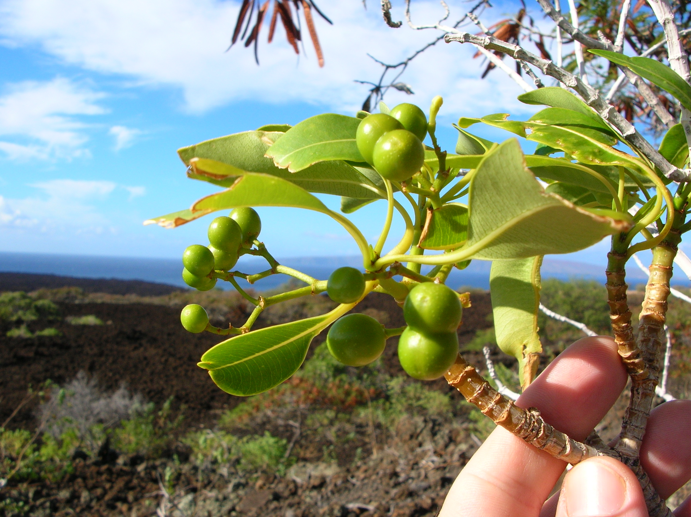 Rauvolfia sandwicensis (fruit). Location: Maui, LaPerouse